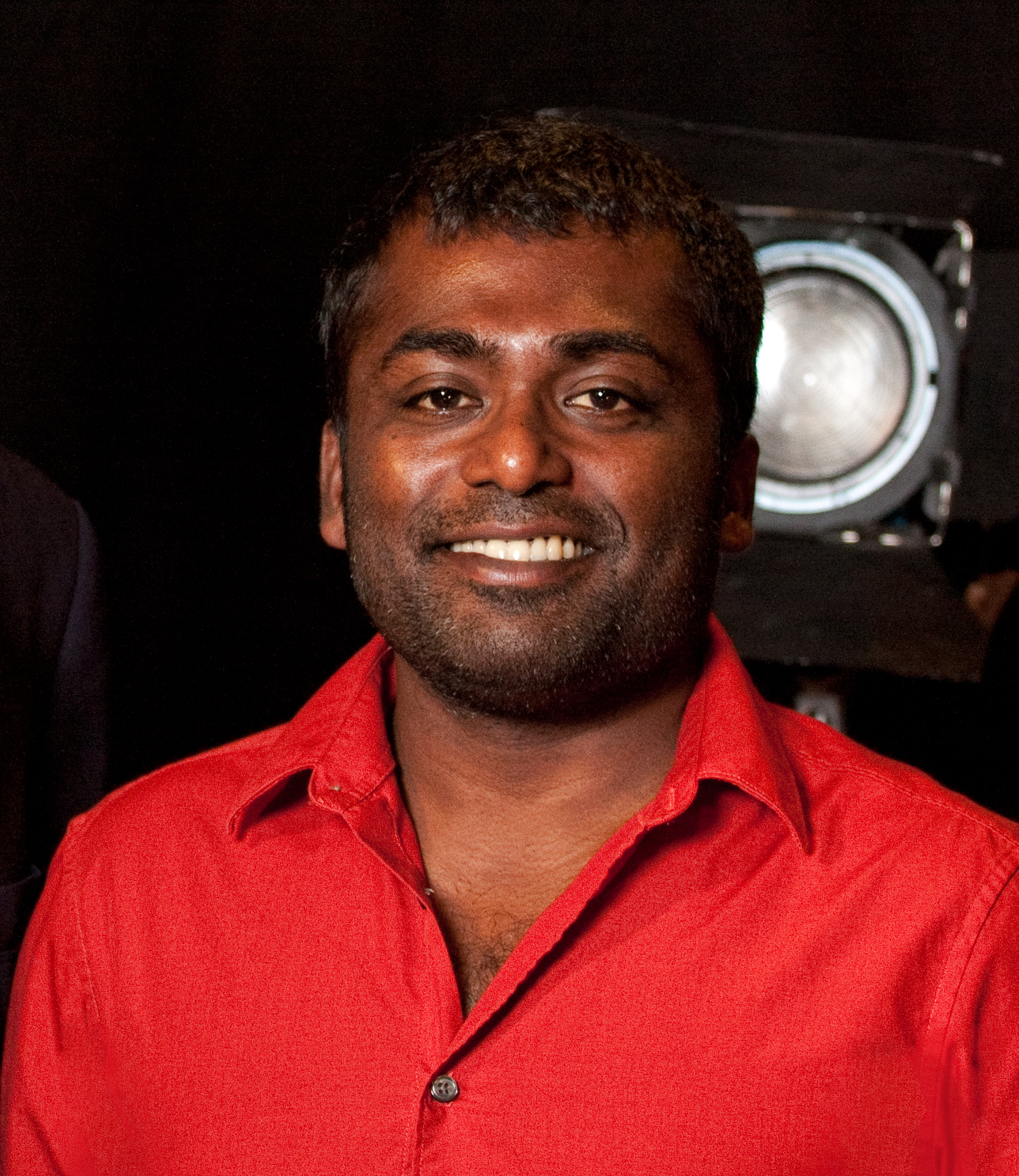 Rohan Fernando, Canadian artist and filmmaker. Photographed on the set of Eastlink Television's "Atlantic Filmmakers" during the 2010 Atlantic Film Festival.